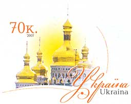 Stamp of Ukraine